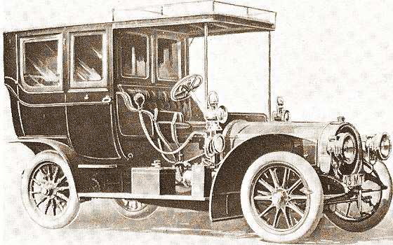 1907 Britannia 24/45 hp limousine